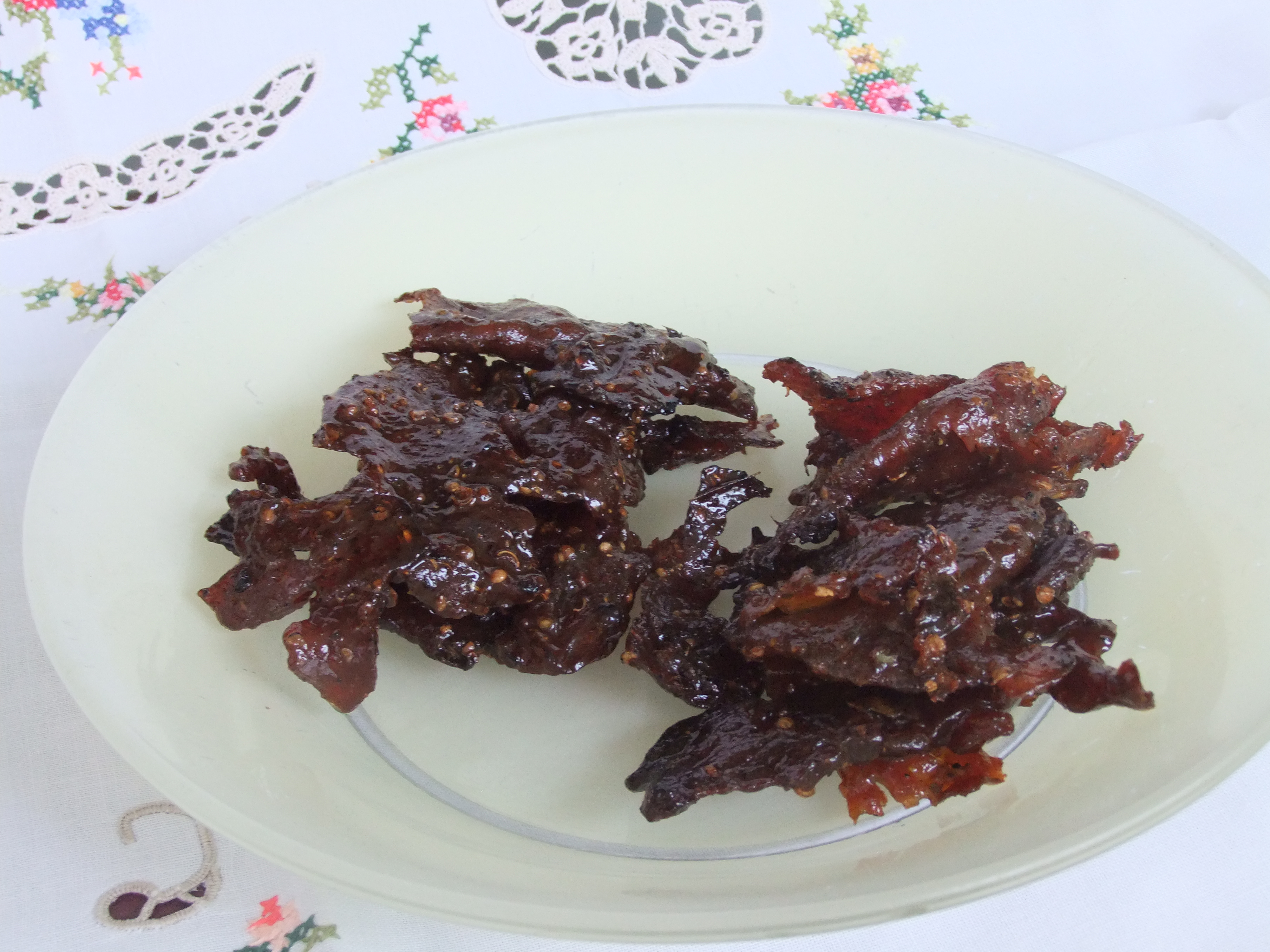 Beef jerky, Surabaya